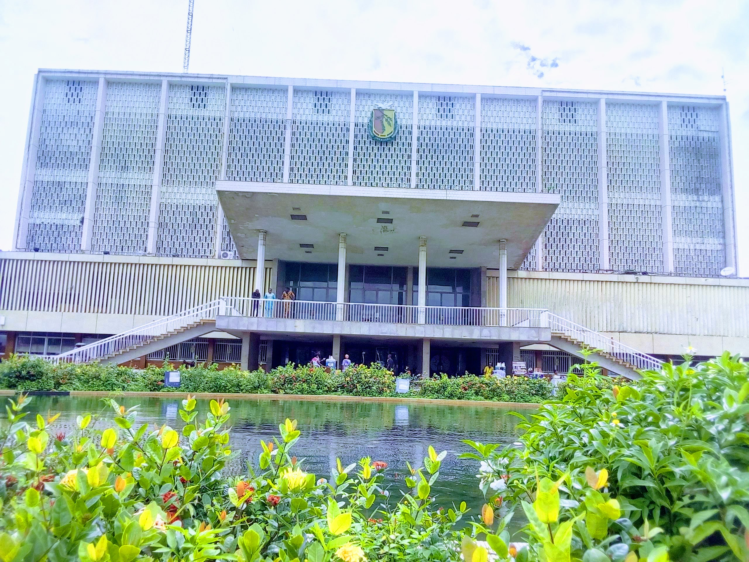 Between principal of the palace of the people Conakry